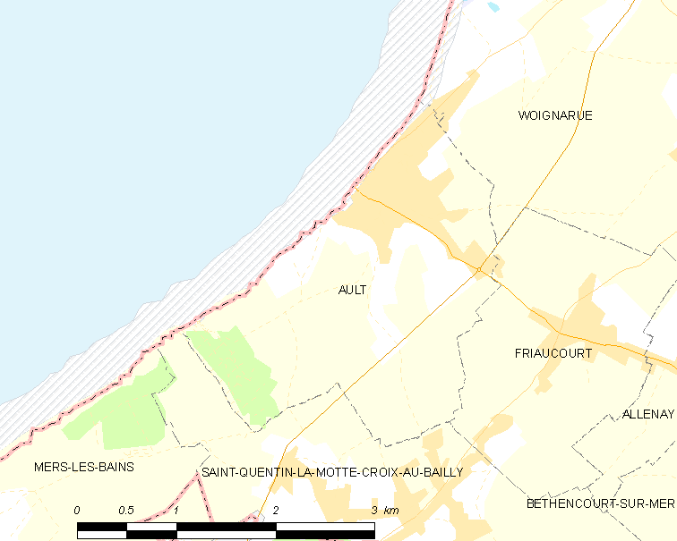 Map of French municipality Ault